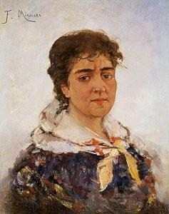 Portrait of the painter Visitació Ubach de Osés (1873–1924)